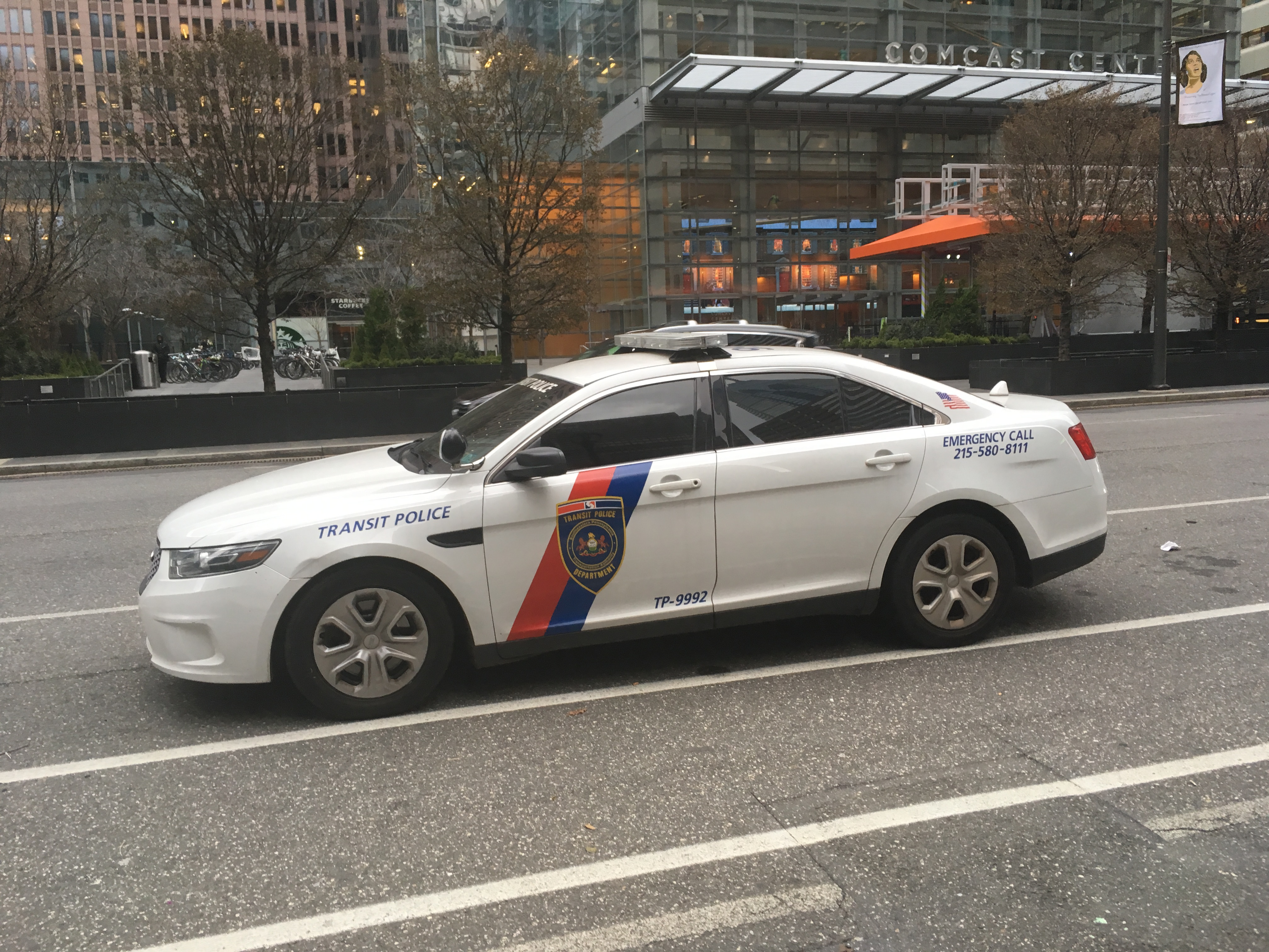 A SEPTA Transit Police 2016 Ford Taurus Police Interceptor on John F. Kennedy Boulevard between 17th Street and 18th Street in Philadelphia, Pennsylvania